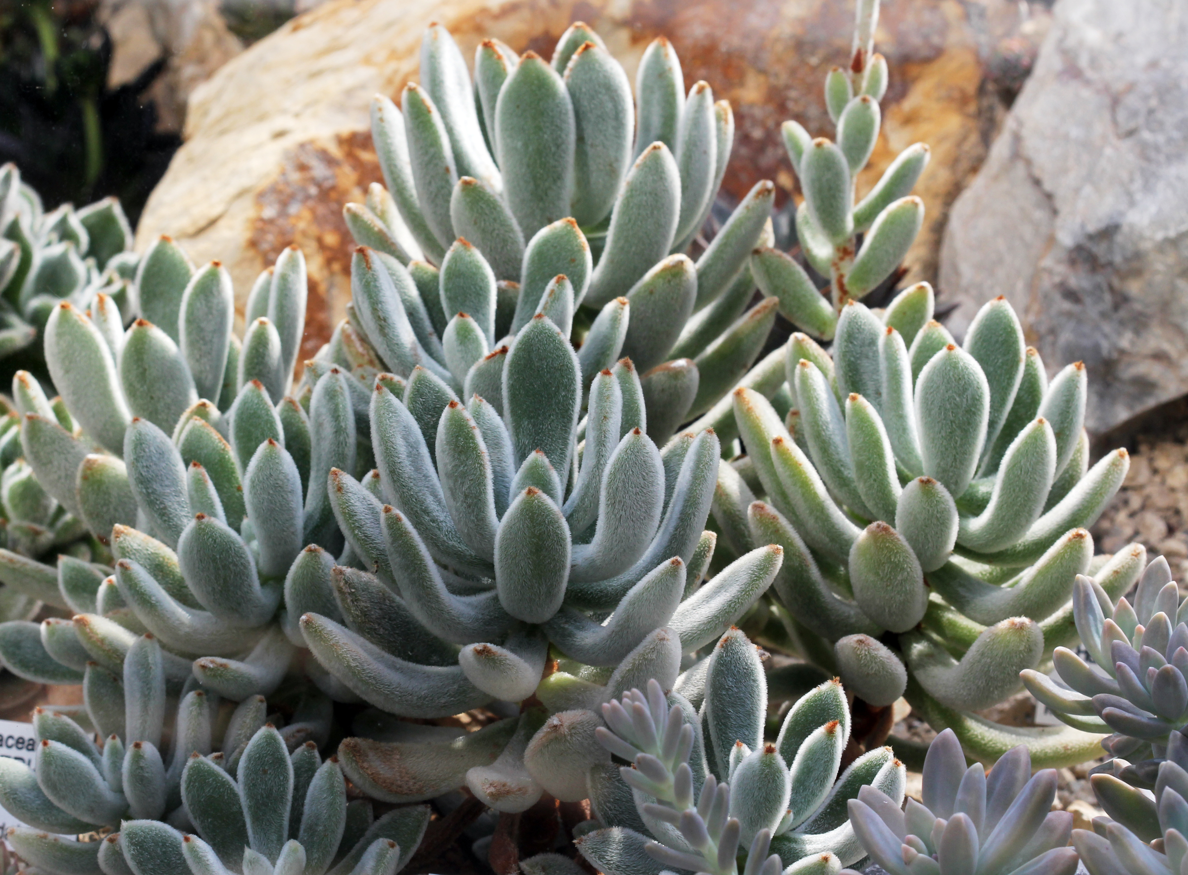 Succulent plants Echeveria leucotricha, The Botanical Gardens of Charles University, Prague, Czech Republic